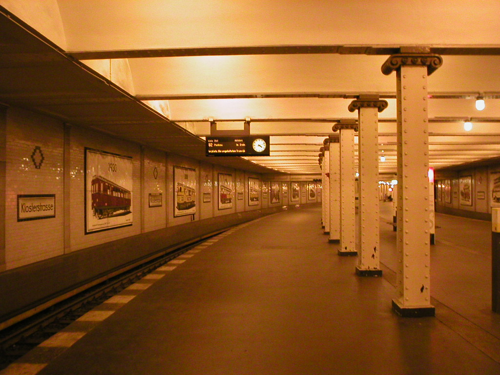 The Berlin U-Bahn station Klosterstraße, line U2